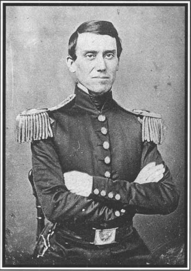 Photo of Lewis Henry Little (1814-1862), who was a United States Army officer and a Confederate brigadier general during the American Civil War. He served mainly in the Western Theater and was killed in action during the Battle of Iuka.